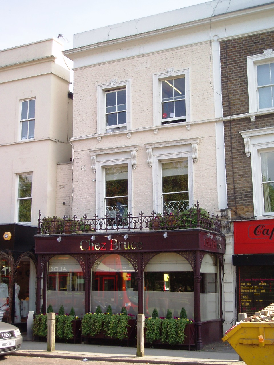 Award-winning (and Michelin-starred) local restaurant. Must try it sometime. I looked in the window and lunchtime set meals are £35 for four courses. Owner: ( website ). Links: Guardian London Eating